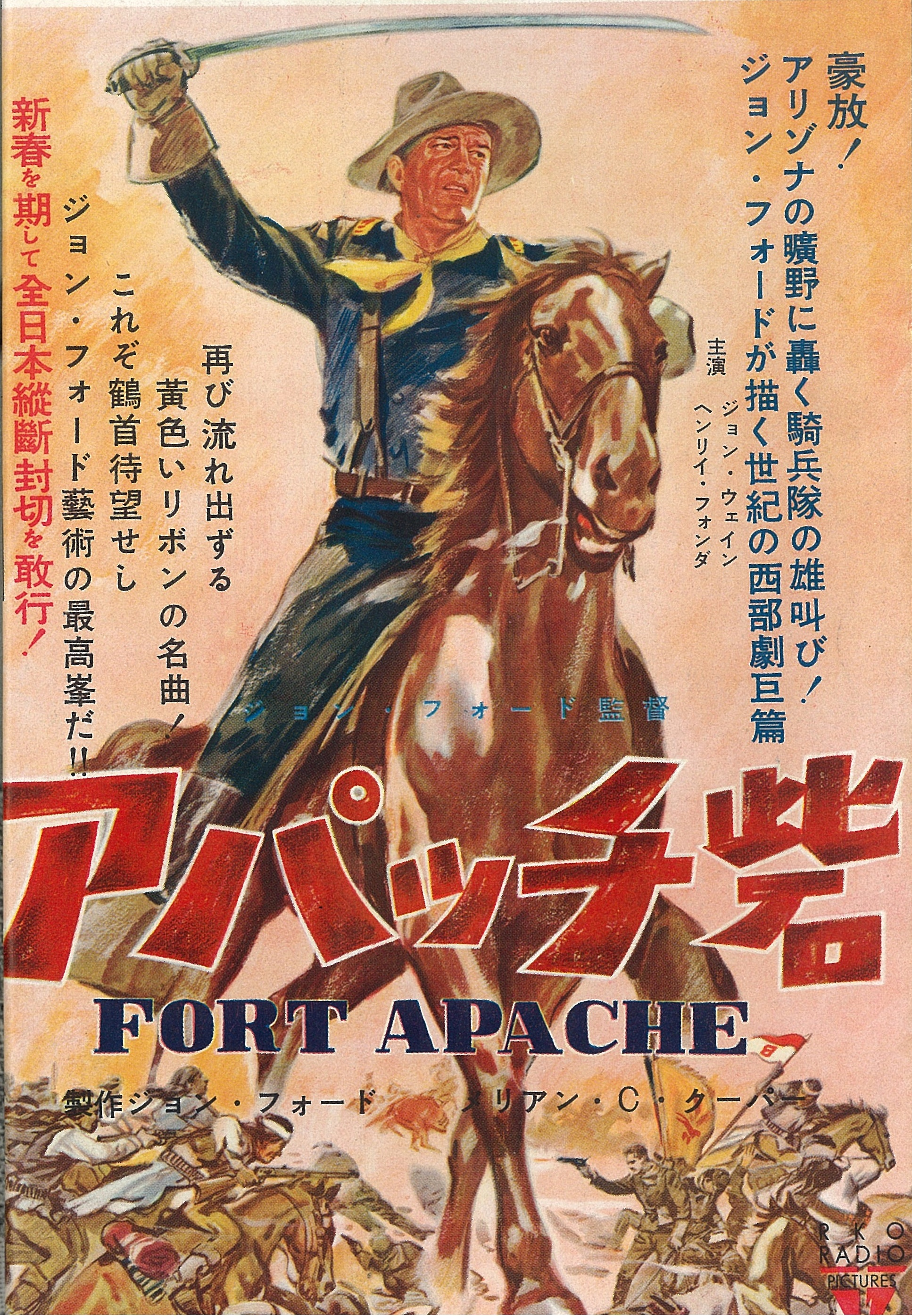 Movie poster for Fort Apache (アパッチ砦) from Eiga no Tomo (November 1952)